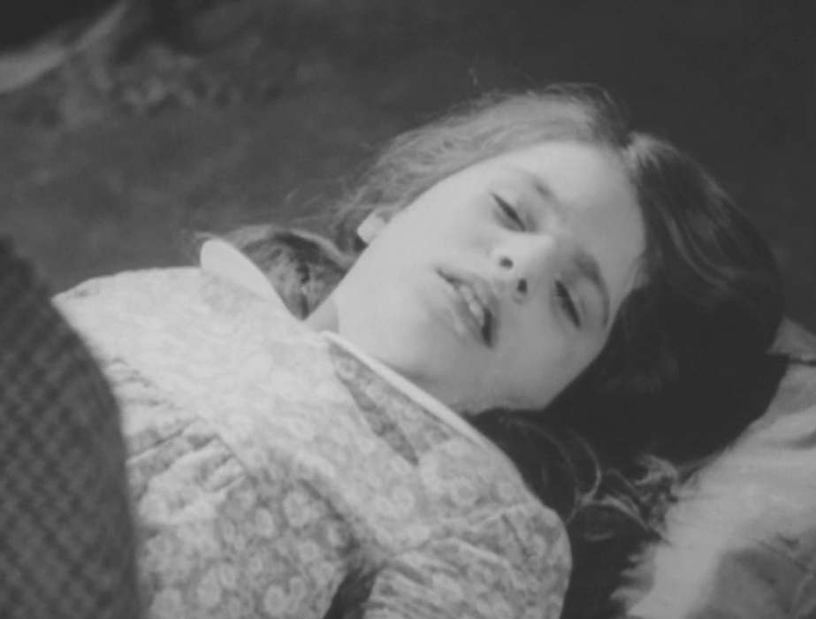 Kyra Schon as Karen Cooper in Night of the Living Dead